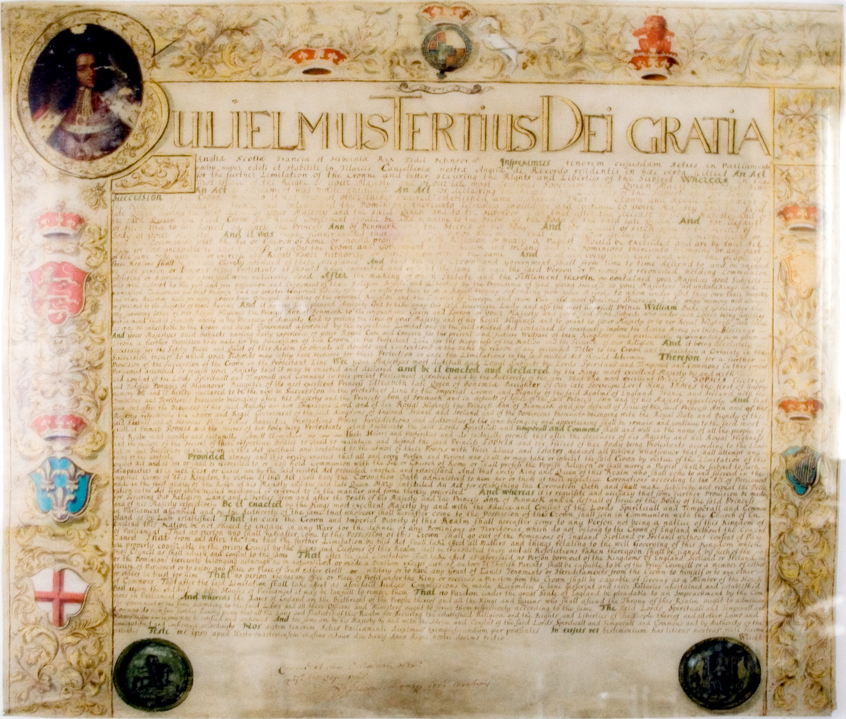 Copy of the Act of Settlement, which was an Act of the Parliament of England to settle the succession to the English and Scottish throne on the heirs of the Electress Sophia of Hanover.